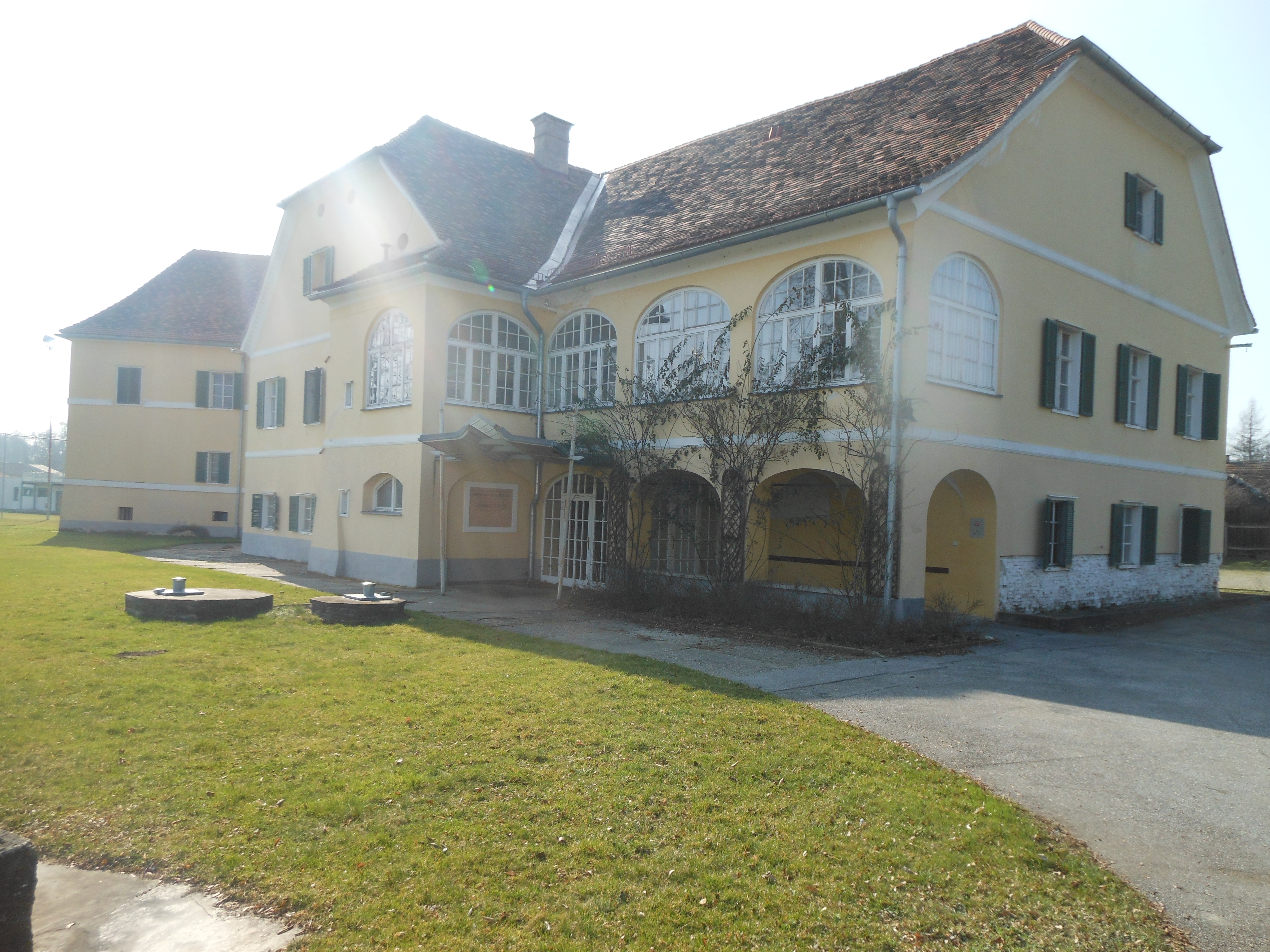 House of Johannes Kepler from 1597 -1599